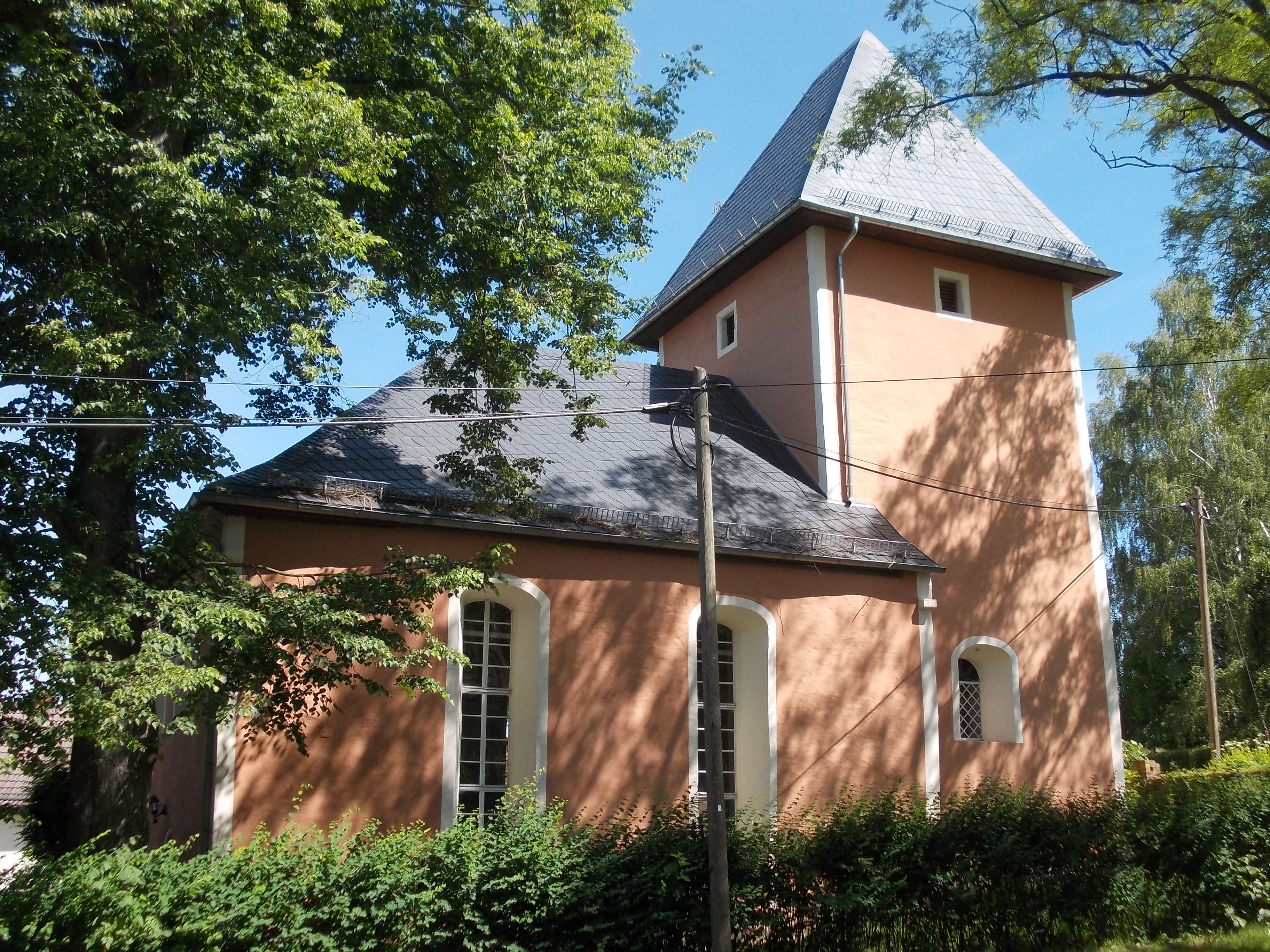 St. Nicholas' Church in Mosen (Wünschendorf, Greiz district, Thuringia)